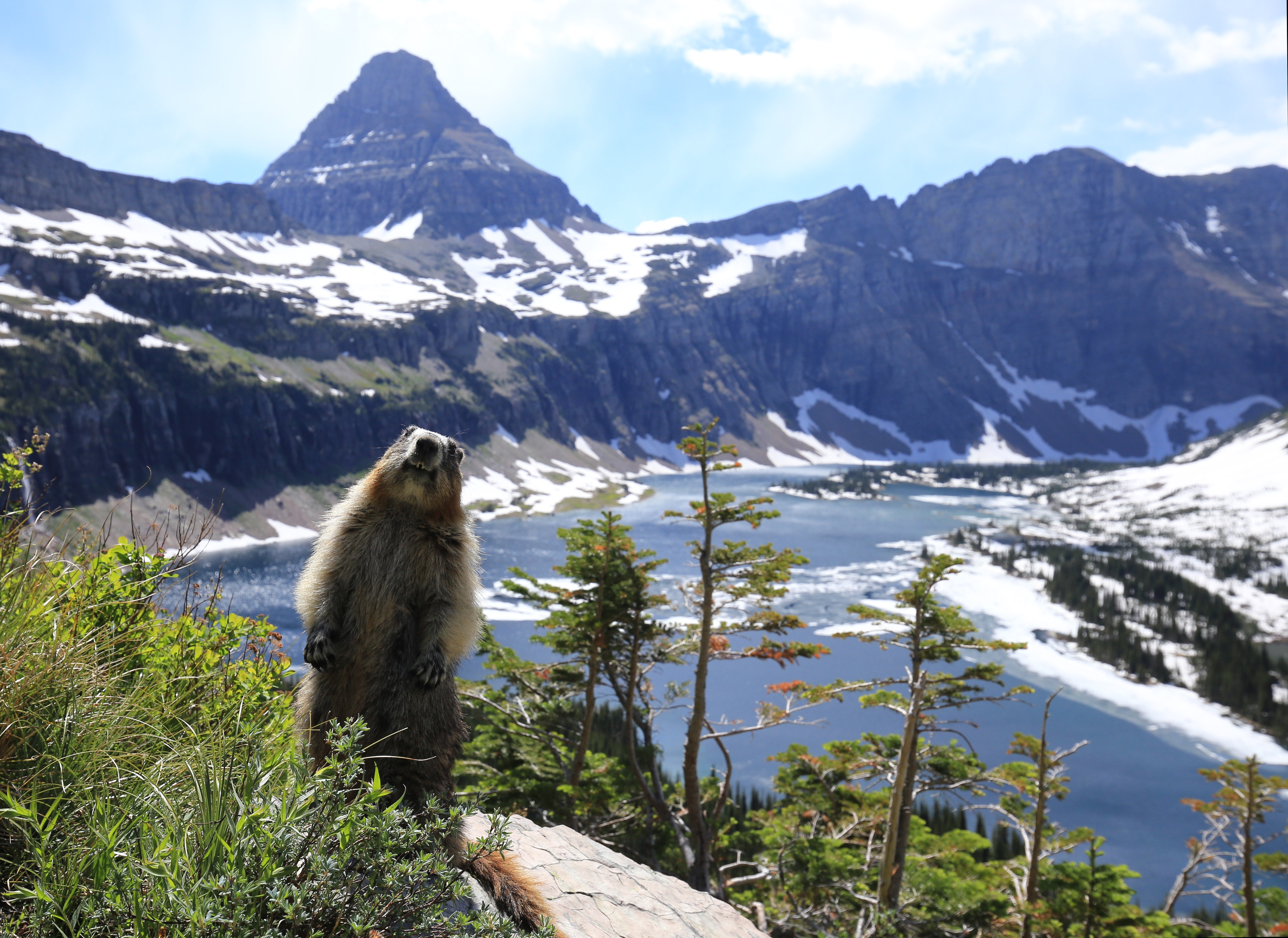 A marmot in front of Hidden Lake and Reynolds Mountain in Glacier National Park, USA.